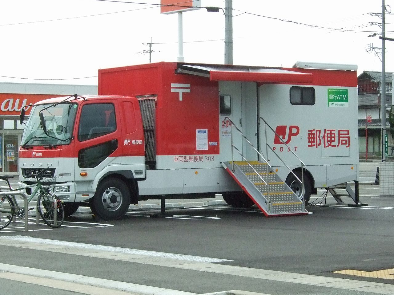 A mobile vehicle type post office in Nishi Ward, Fukuoka City, Fukuoka, Japan.